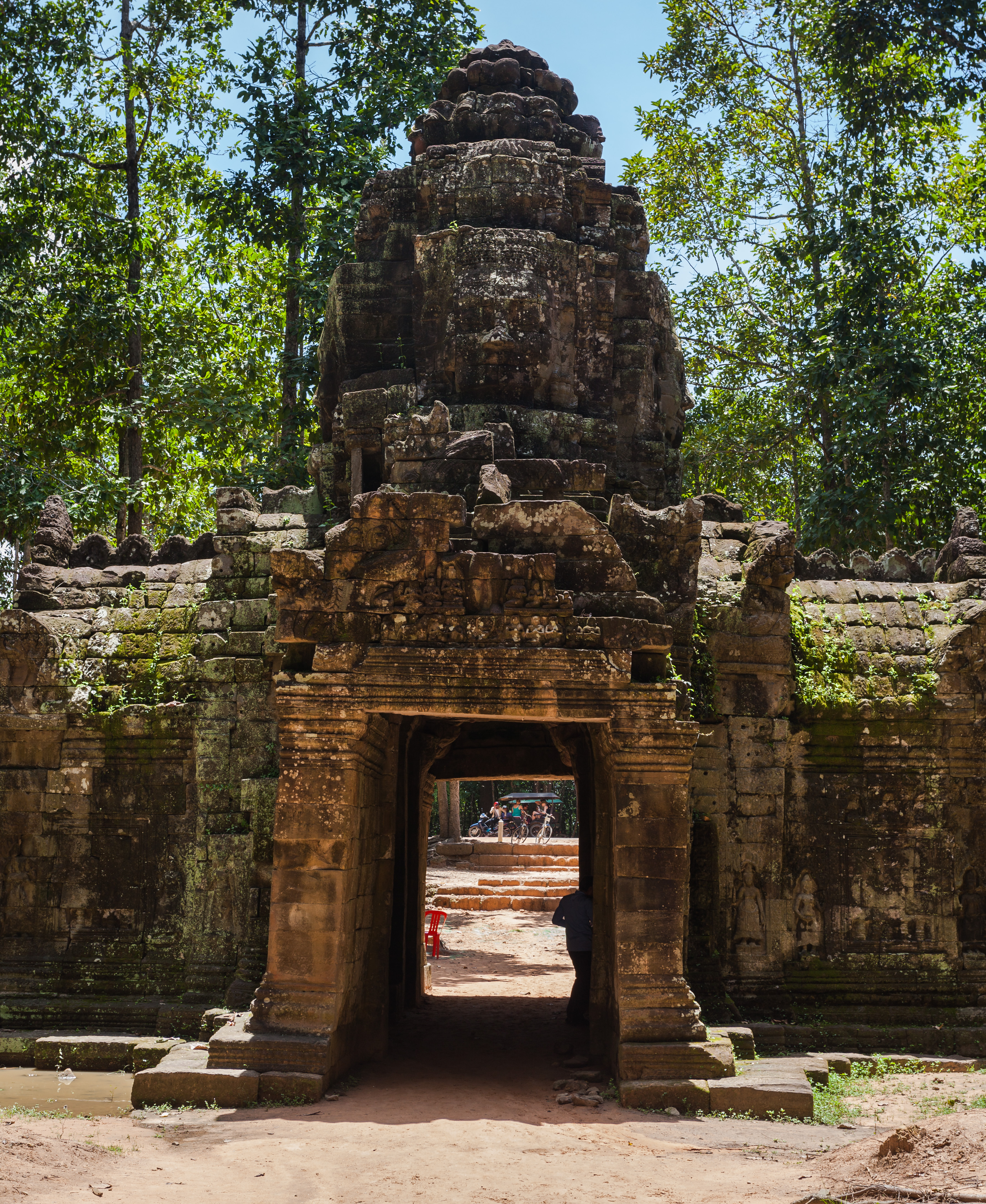 Ta Som, Angkor, Cambodia